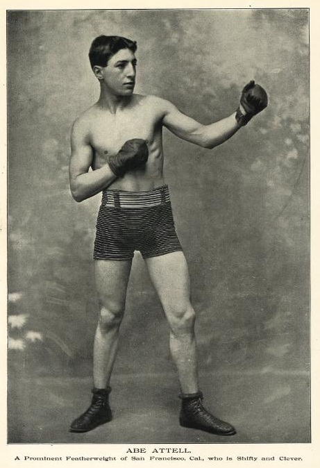 This photo was taken of Abe Attell, 1902 Featherweight Champion prior to his assumption of the Featherweight crown. Following is the URL link used to obtain the photo: The photo will be kept small. It is a commonly used photo of Attell taken a good while before 1923 and used in newspapers long prior to that period. It is therefore by definition Public Domain in the United States. Note the youthful appearance of Attell in the photo.